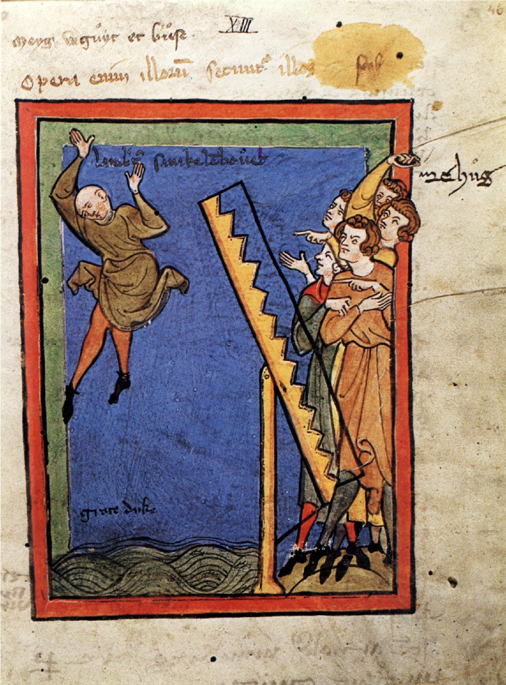 Thirteenth miniature from the Nequambuch: The Soester rocker, a criminal instrument for garden and field thieves. In a somewhat modified form this type of operation was continued to 1780.